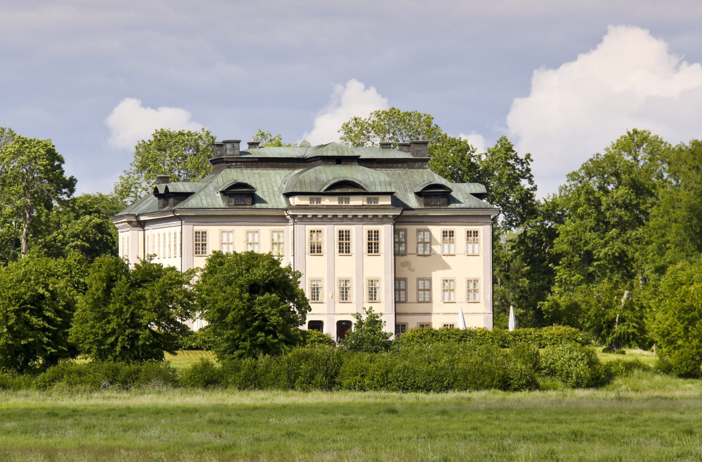 Salsta castle in the surroundings.